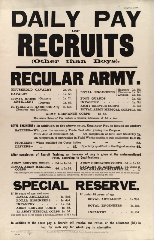 Recruiting poster British Army